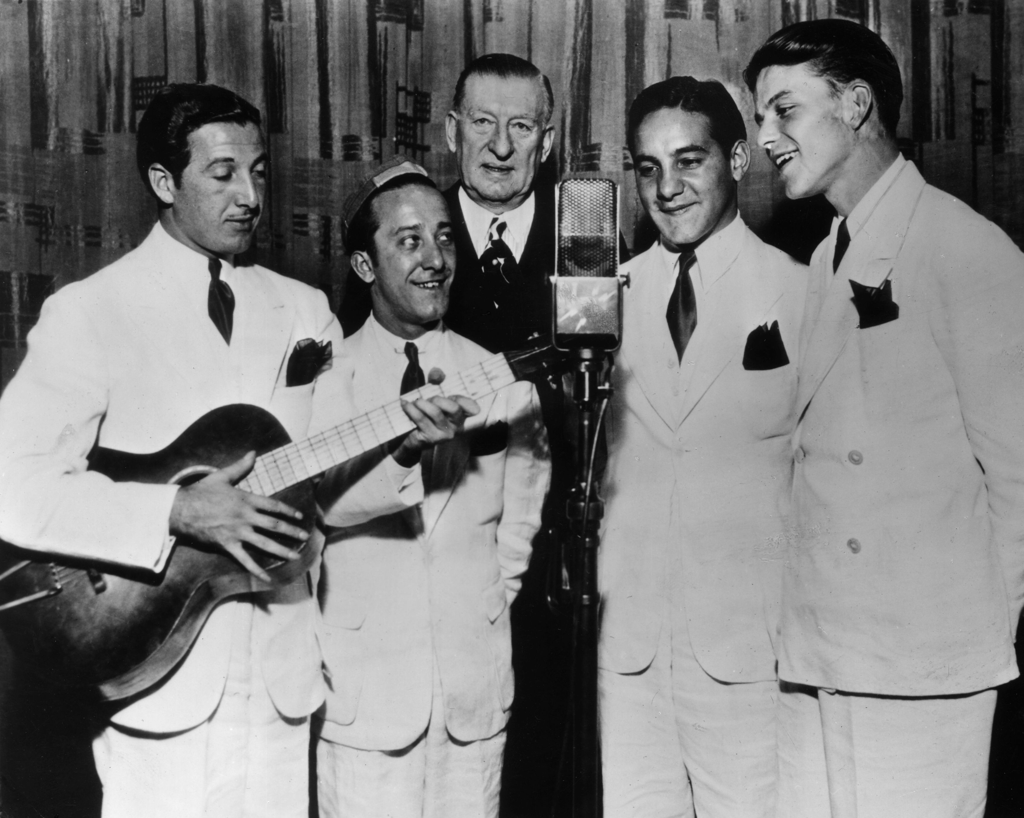 Photo of the Hoboken Four as they appeared on the Amateur Hour with Major Bowes in 1935. At center is Major Bowes, at right is Frank Sinatra. The other three members of the Hoboken Four are Jimmy Petrozelli, Patty Principe, and Fred Tamburro. (need to identify and list in correct order)